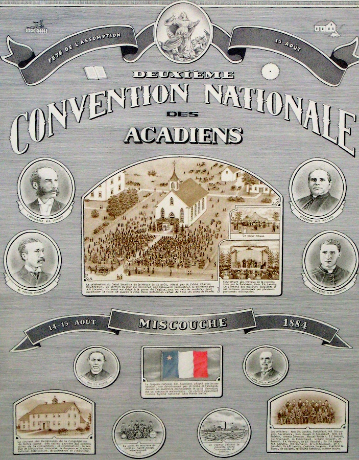 Poster of the second Acadian National Convention in Miscouche, Prince Edward Island, in 1884.